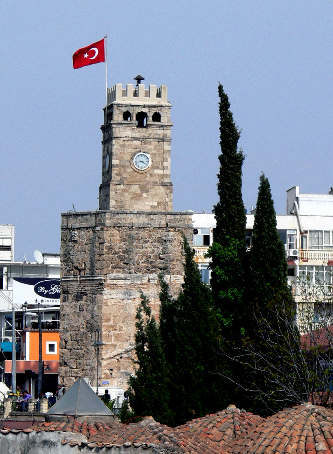 Antalya ( Turkey ). Ottoman clock tower.